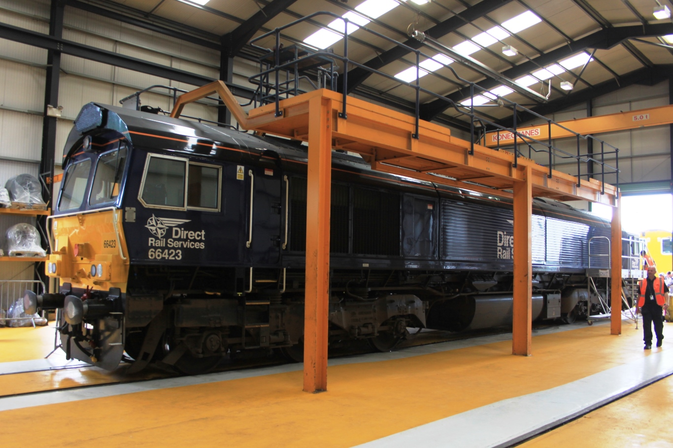 Direct Rail Services' 66423 in the company's maintenance shed at Crewe.